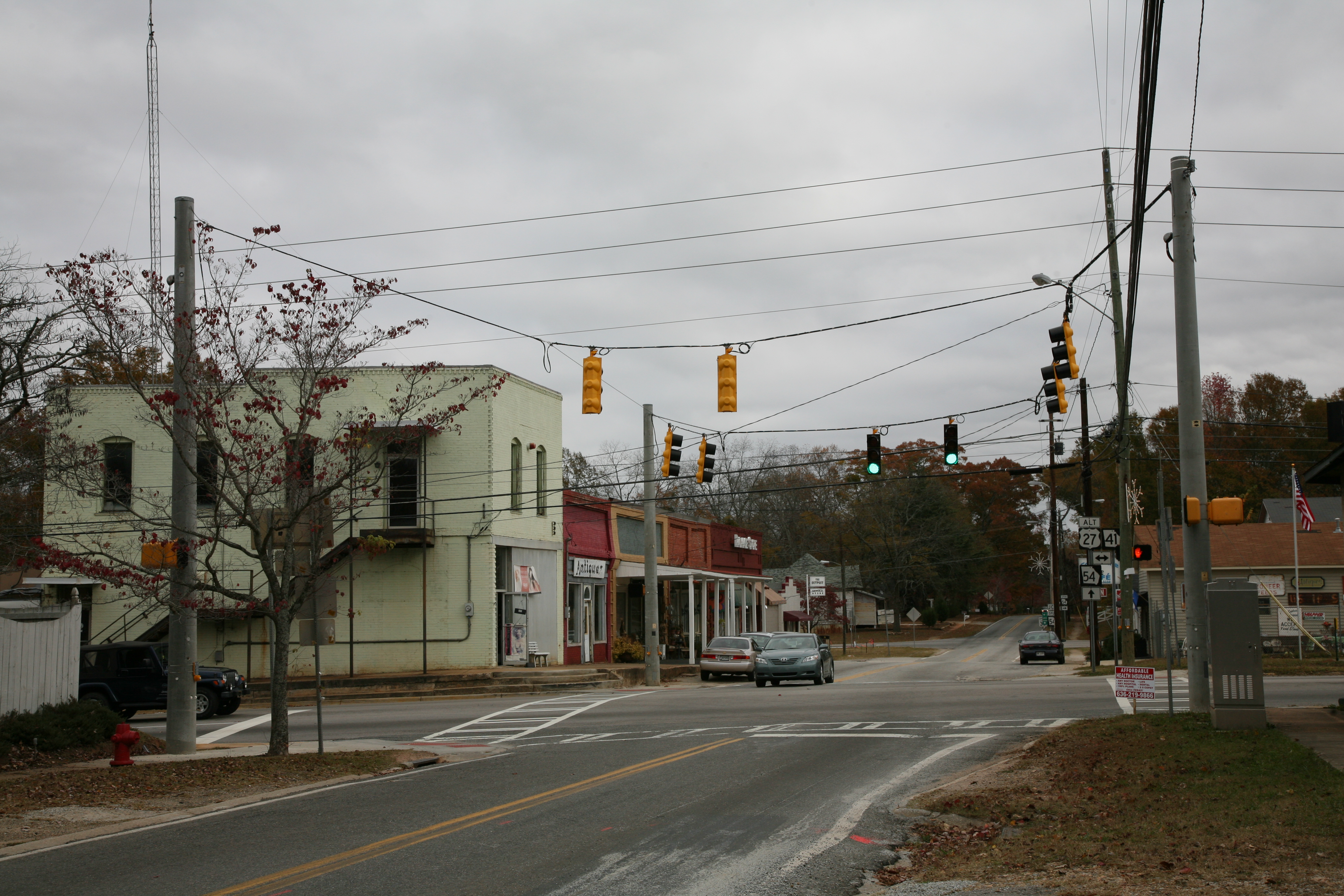 Intersection in Luthersville, Georgia, USA